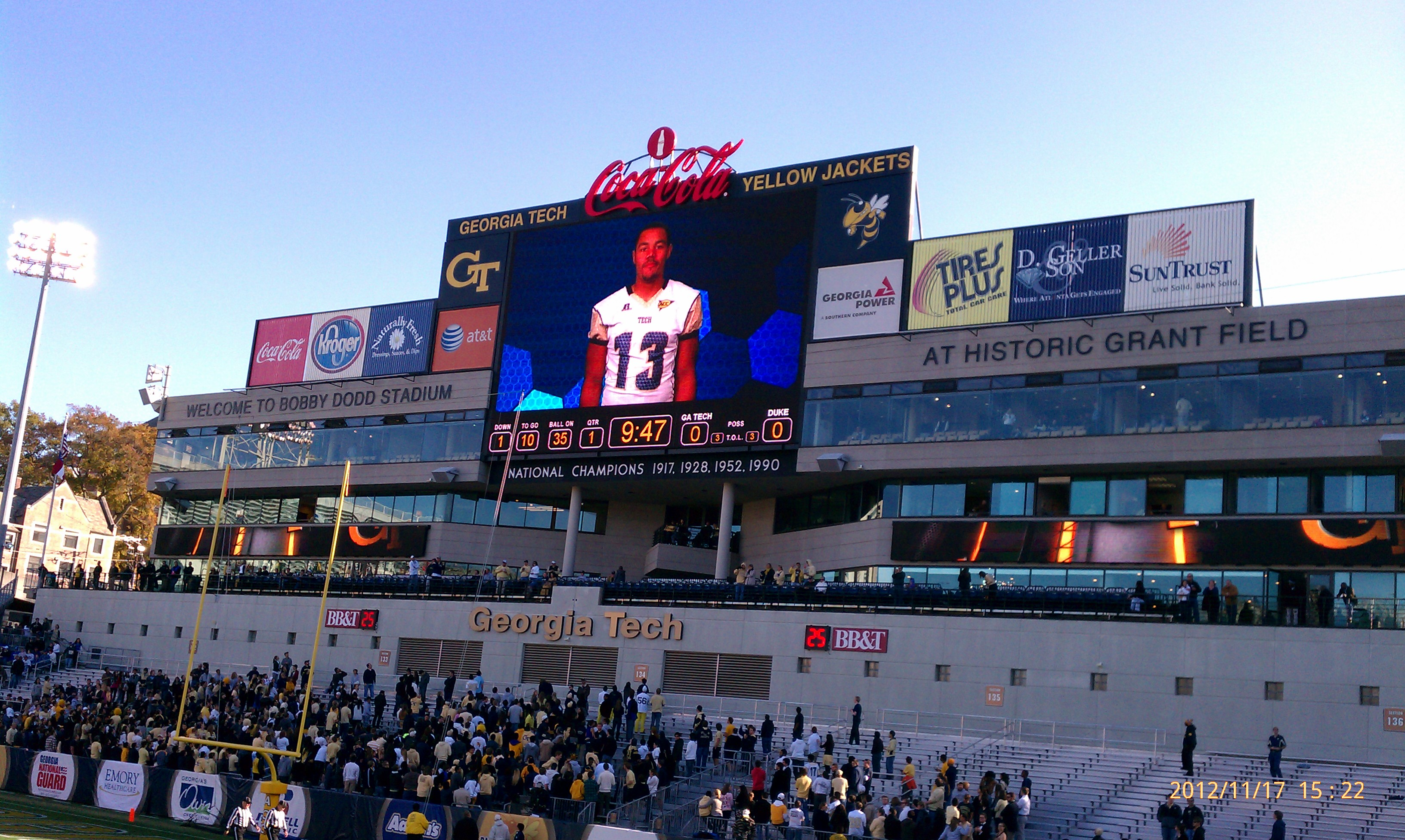 Tevin Washington recognized on the big screen at Bobby Dodd Stadium on Senior Day before Duke game on November 17, 2012